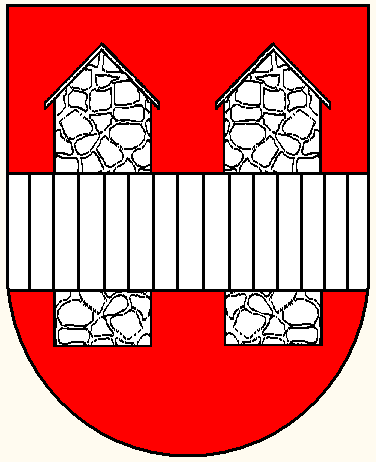 Coat of arms of Innsbruck